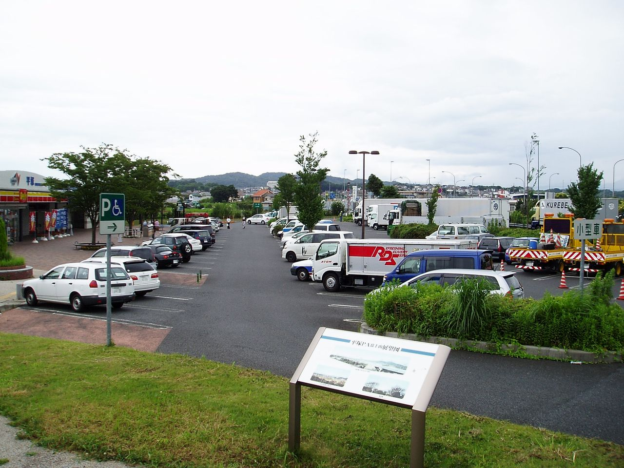 Hiratsuka Periking Area, Route 271 in Japan